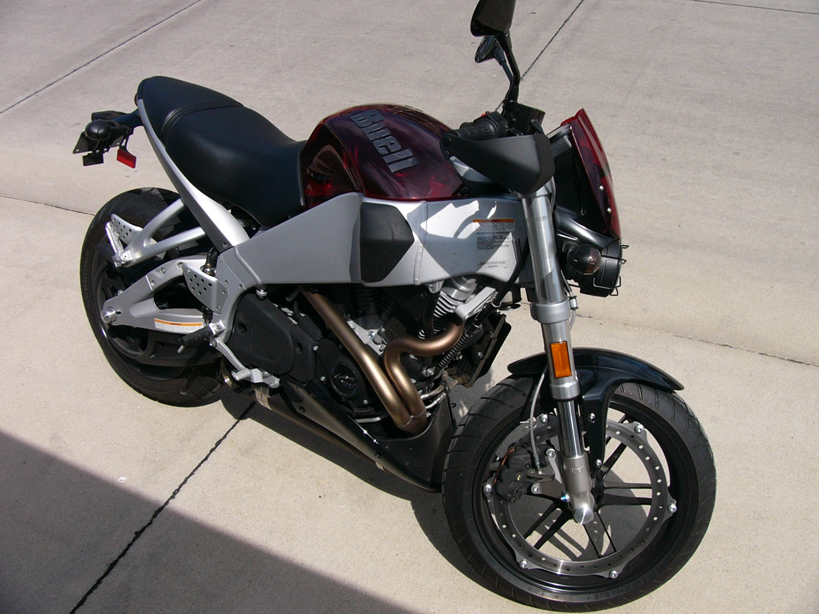 New "Cherry Bomb" body work from the '07 XB12S